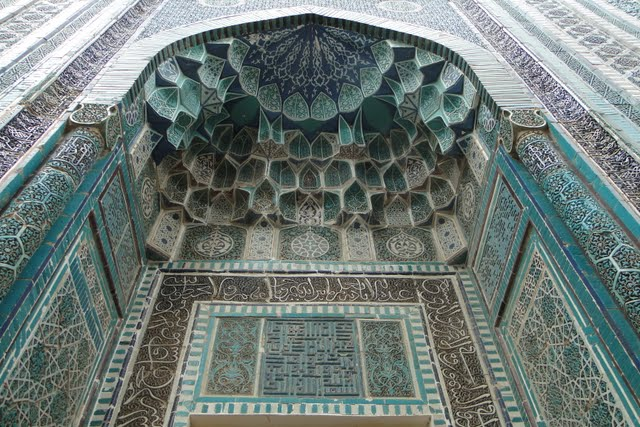 Mosoleum Shah-i-Zinda (detail)